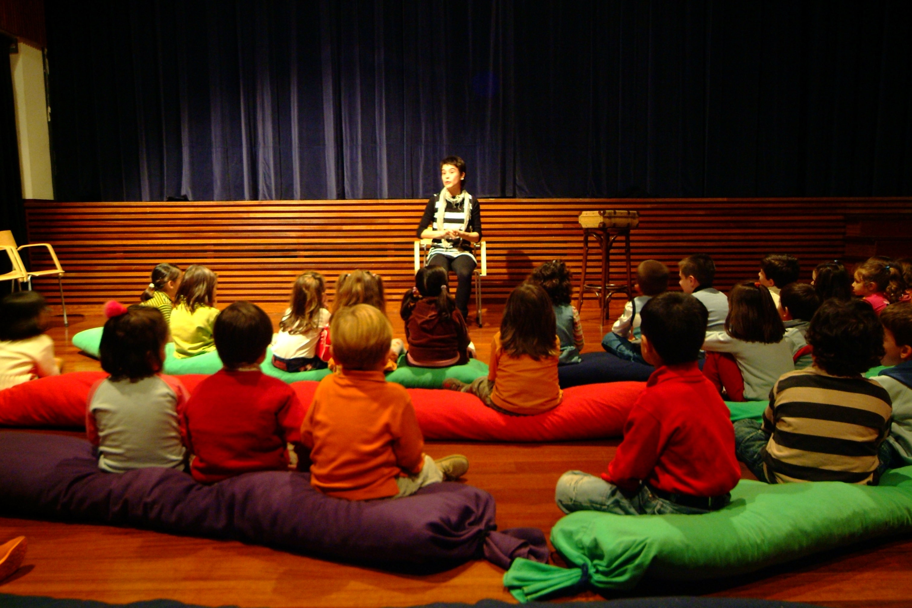 Storytelling Living